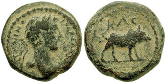 Judaea, Aelia Capitolina (Jerusalem). Antoninus Pius. 138-161 Æ 17mm (4.55 g). Laureate head right Boar (symbol of the Tenth Legion) right. Meshorer, Aelia 30; Rosenberger 19; SNG ANS -; Hendin -. Near VF, desert patina.